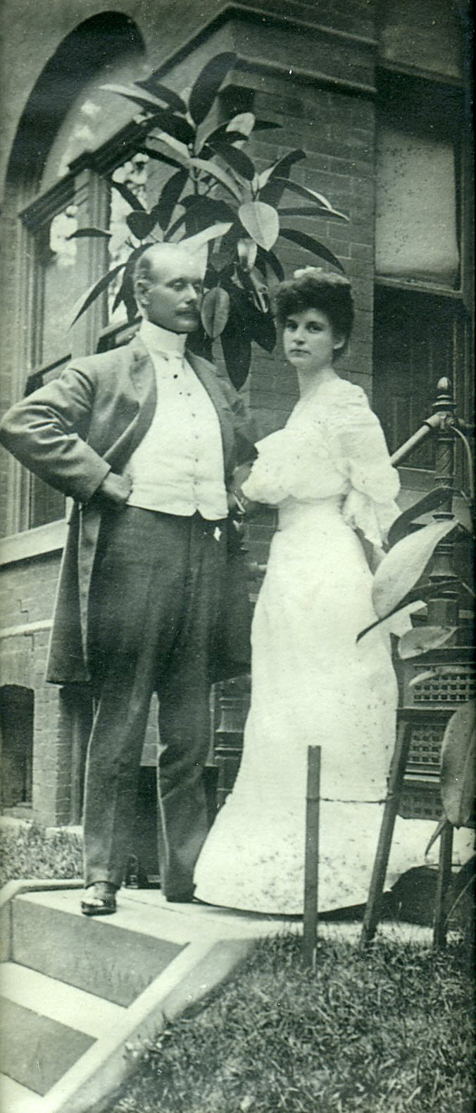 Swedish engineer and painter Malte Liewen Stierngranat (1871-1960) at the White House